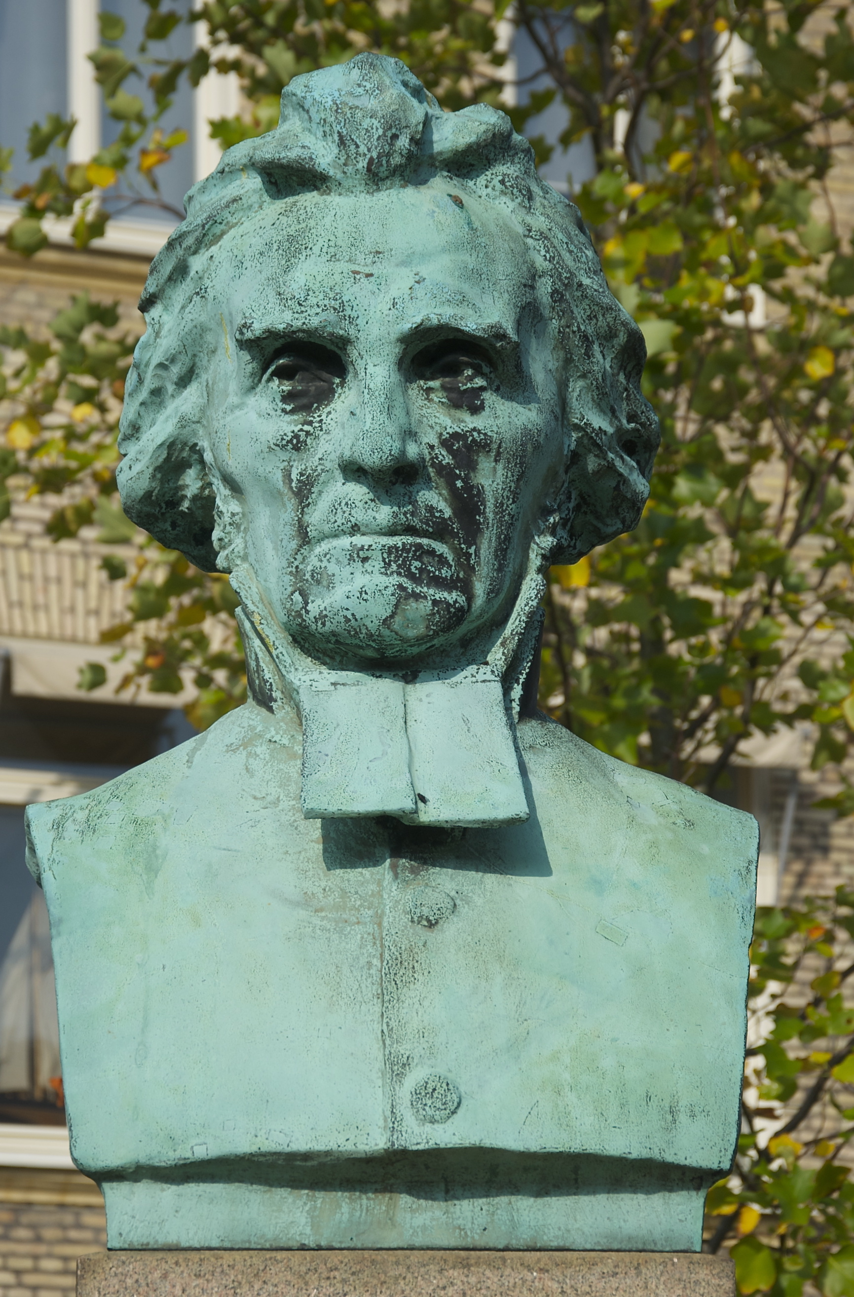 Bust of Peter Wieselgren (1910) outside Gothenburg Cathedral, Gothenburg Sweden. Artist: Bror Chronander.